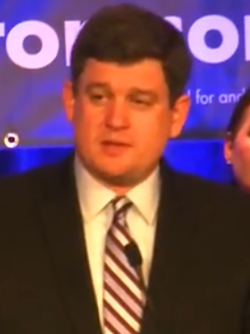 Boston Mayoral Candidate John Connolly faces defeat after losing to opponent Marty Walsh in the election that took place on Tuesday, November 5th.